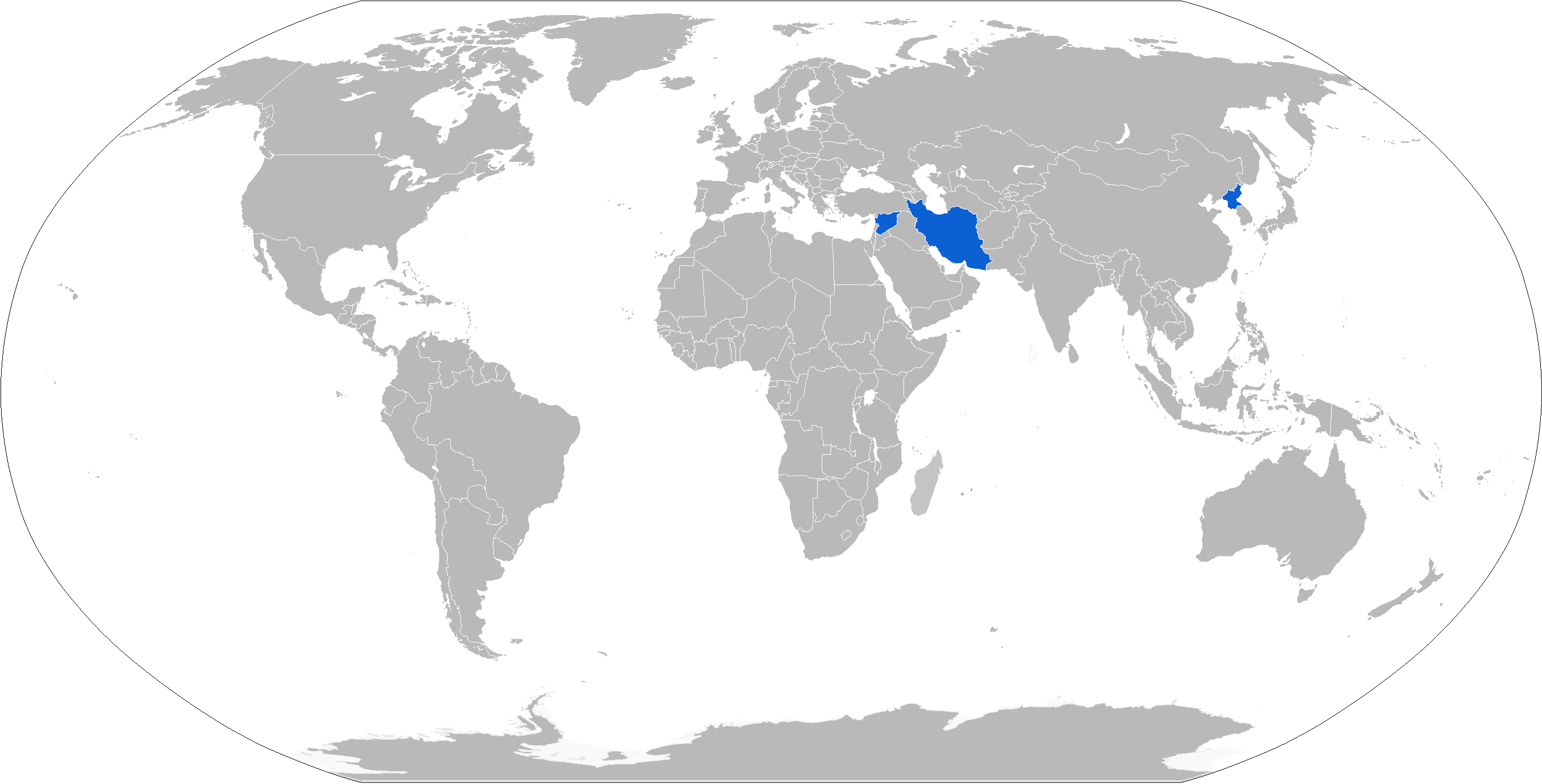 Map with Fateh-110 operators in blue